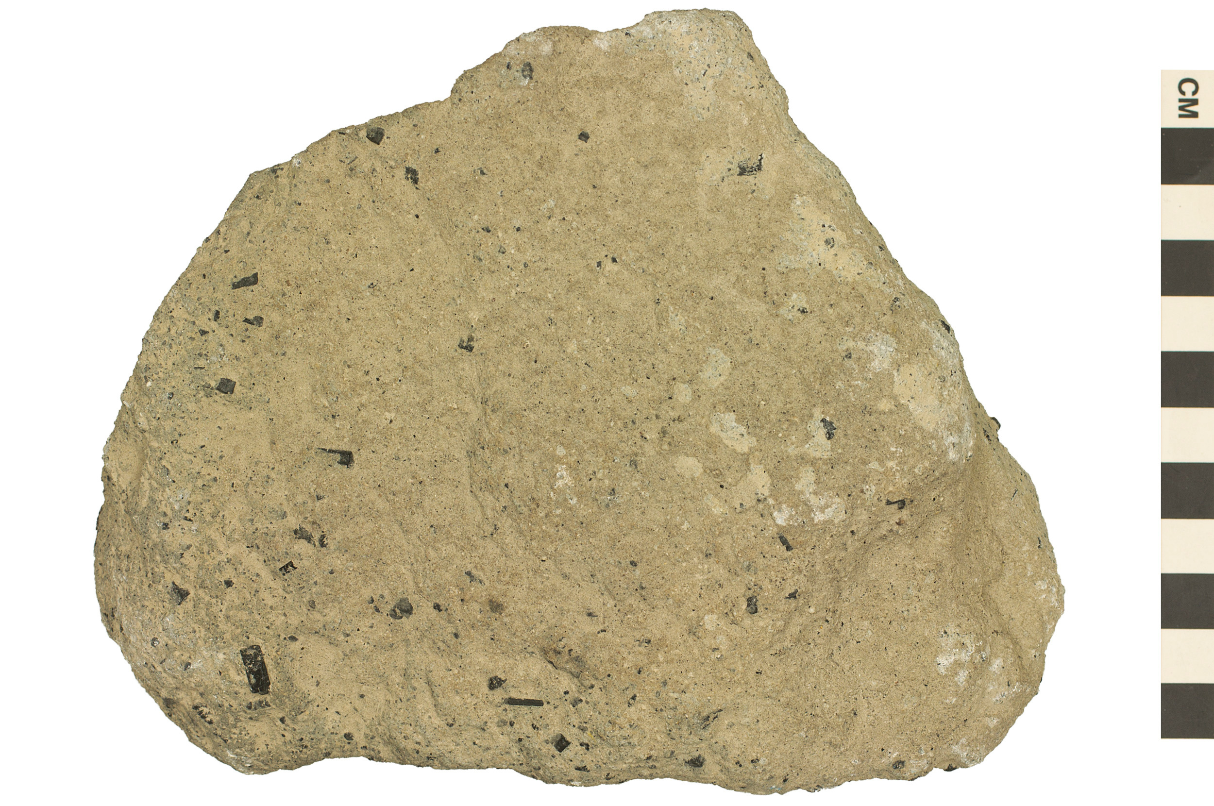 Volcanic ash (tuff) from Montserrat. Smithsonian Rock Sample NMNH-EO 045901.